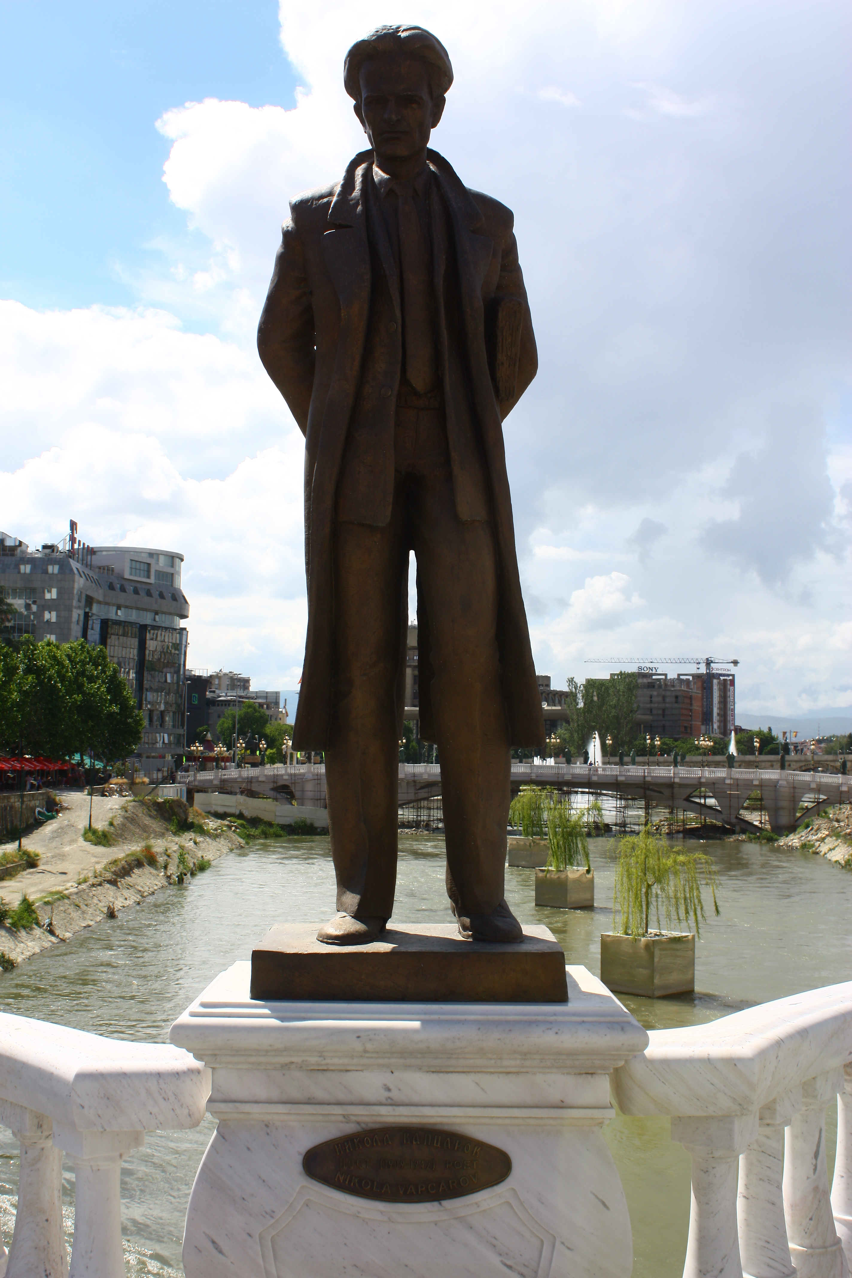 Sculpture od the Bridge of Arts in Skopje, Macedonia This image is uploaded as part of the picture contest Wiki Loves Cultural Heritage in Macedonia 2013. English | македонски | +/−